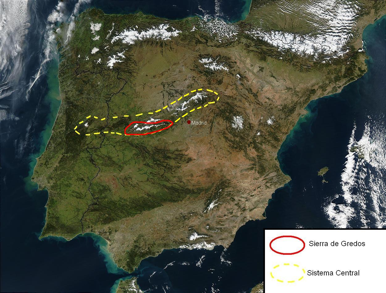 Map of the Gredos mountain range, in Spain.